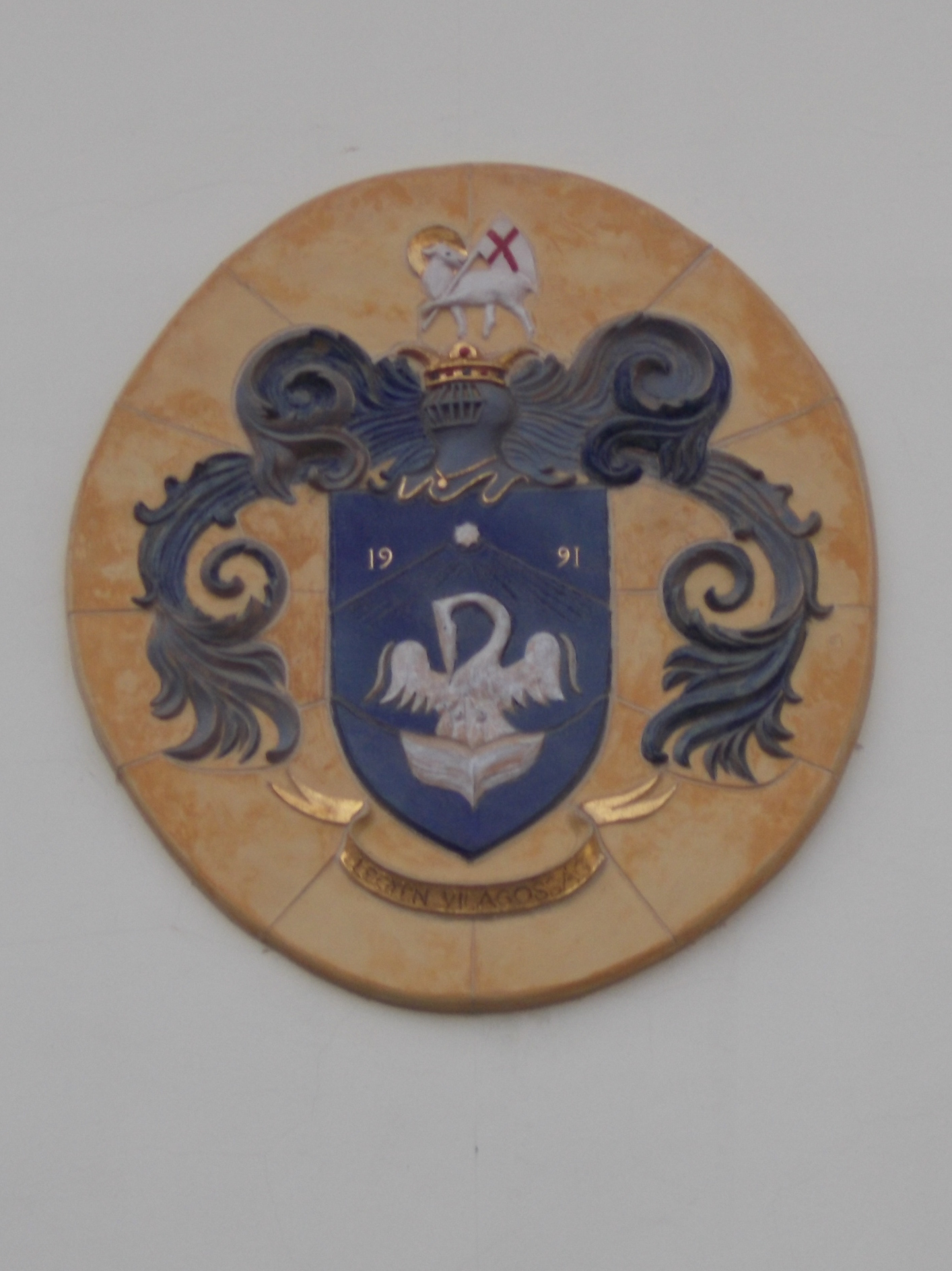 Reformed Lyceum. Connected with the Reformed church . - Szabadság Square, Gödöllő, Pest County, Hungary